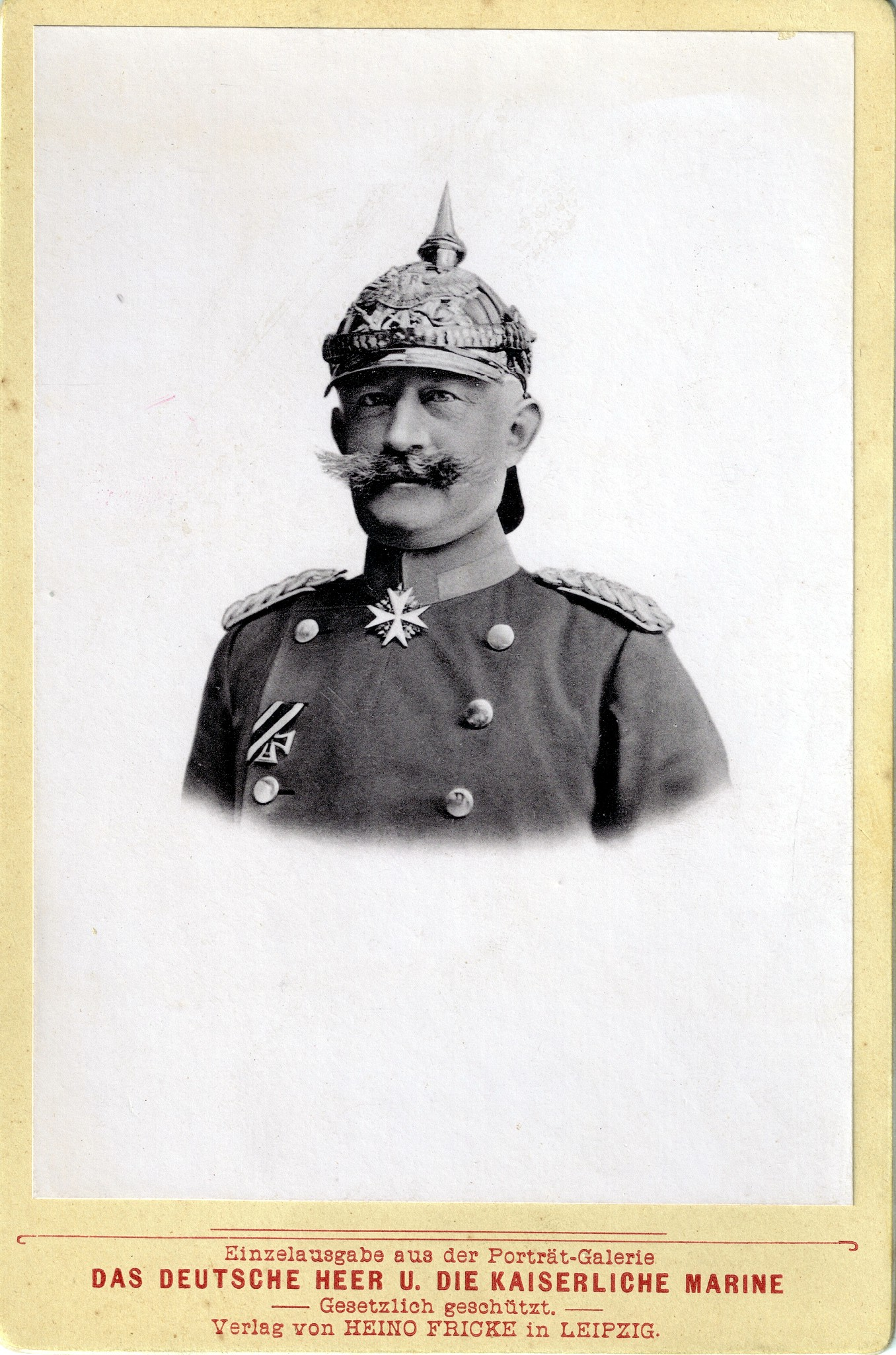 Otto von Schwerin (1851-1939) as Colonel, around 1900, Cabinettcarte(CAB) published by Heino Fricke, Porträt-Gallerie "Das deutsche Herr und die kaiserliche Marine", Leipzig.